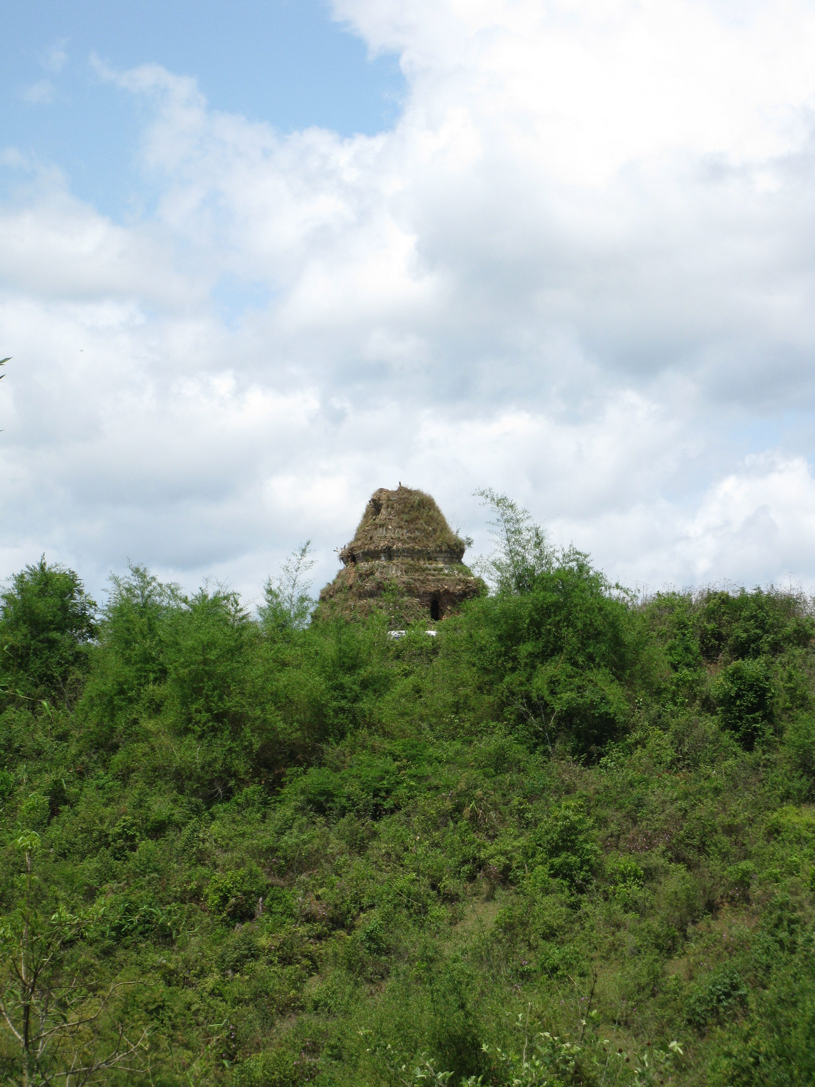 That Chom Phet temple, Muang Khoun, Xieng Khouang Province, Laos